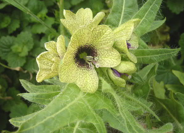 Henbane (Hyoscyamus niger)